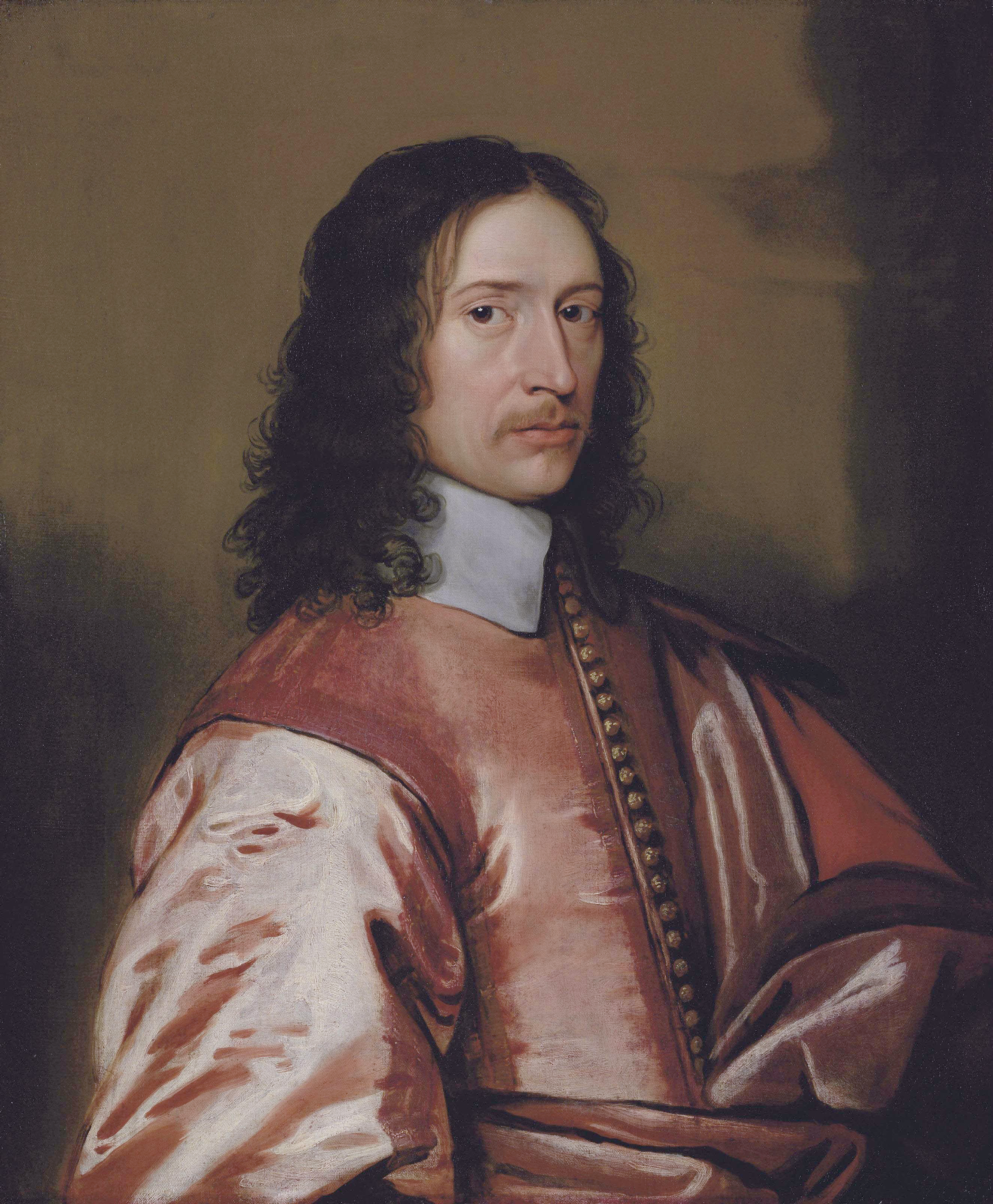 Humphrey Style, 1st Baronet (c1596-1659) oil on canvas 76 x 63.8 cm